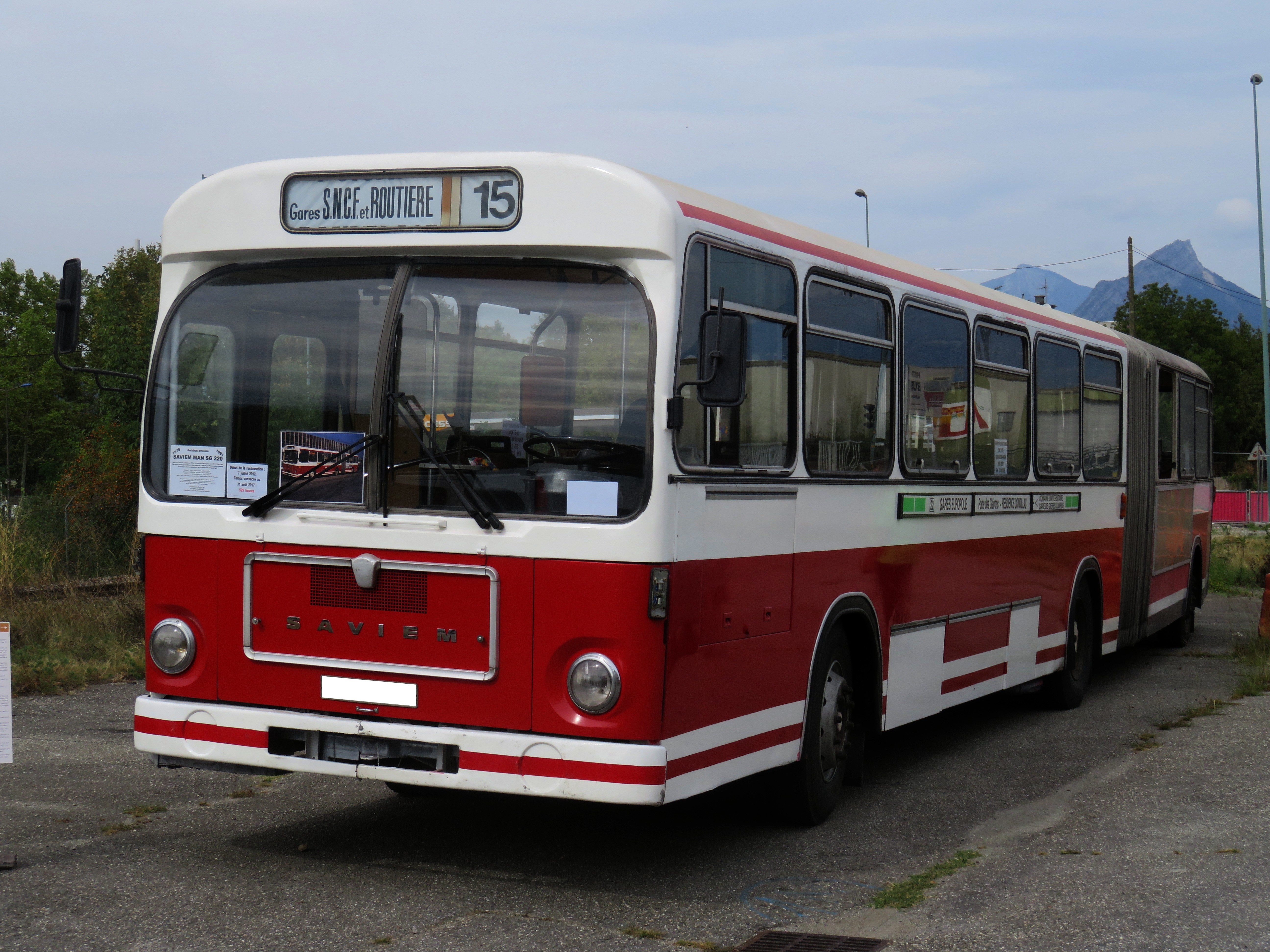 A Saviem SG 220 (former n°104 of the TAG, conserved by the association Standard 216), parked in front of the Histo Bus Dauphinois (Le Pont-de-Claix, France) on September 16, 2018.